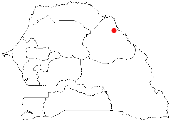 Ouro Sogui, Senegal Location Map; created with the GIMP